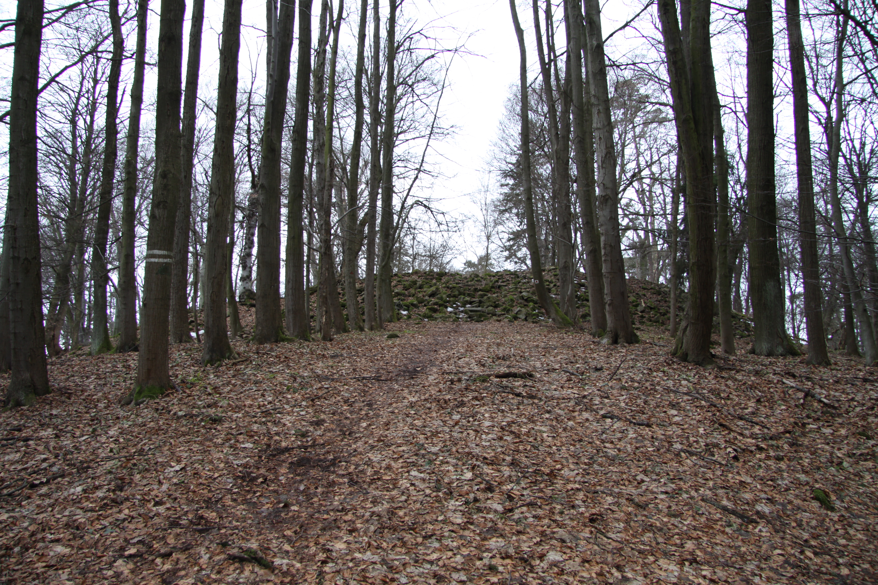 Natural reservation Skočický hrad near Skočice, Strakonice District, Czech Republic